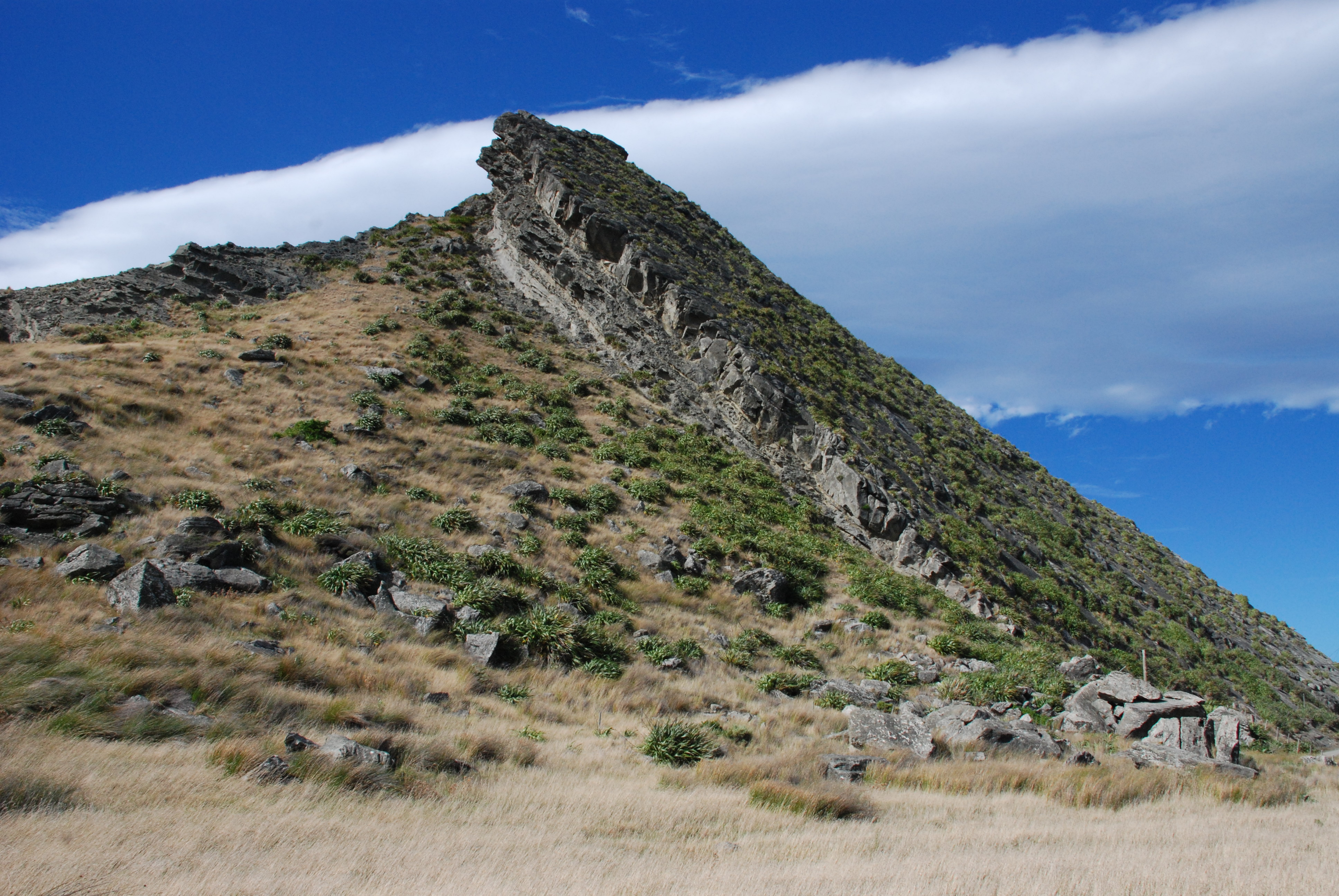 Kupe's Sail, on the Palliser Bay coast, past Ngāwī, Region of Wellington, New Zealand